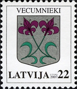 Stamps of Latvia, 2007